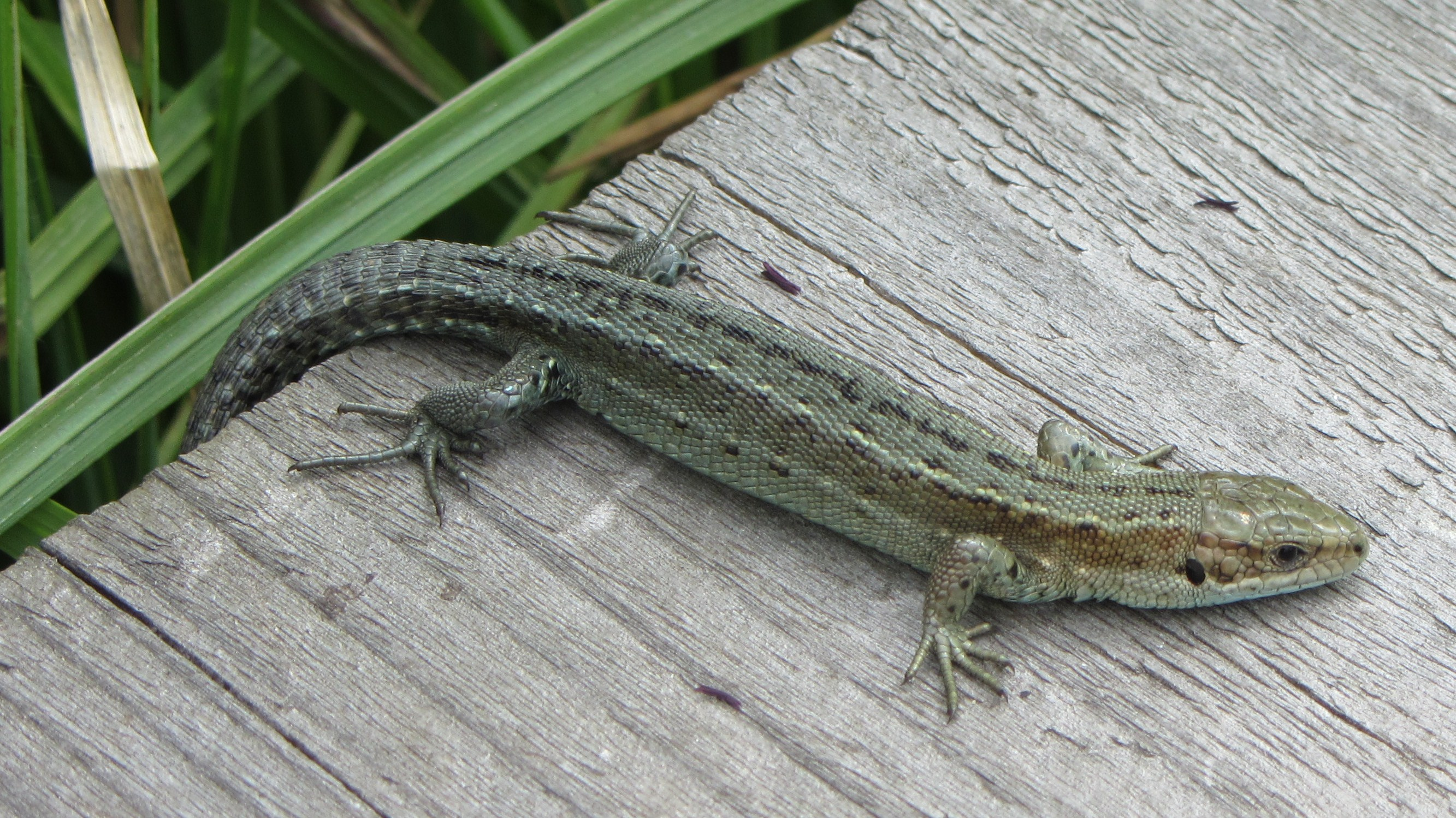 A Common Lizard (Zootoca vivipara) on a boardwalk at Thursley Common, Surrey.